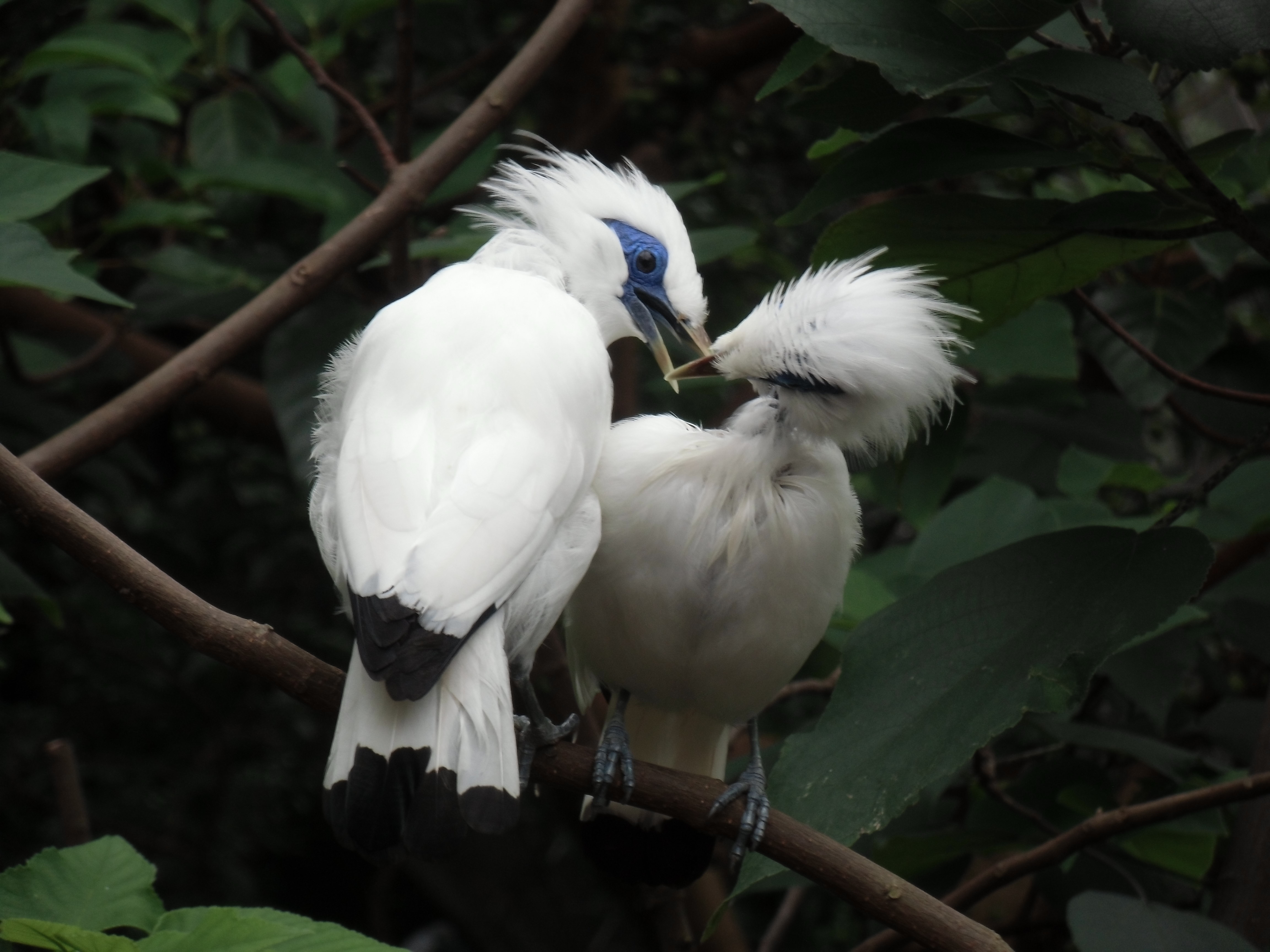 Leucopsar rothschildi, taken in Hong Kong Park Edward Youde Aviary